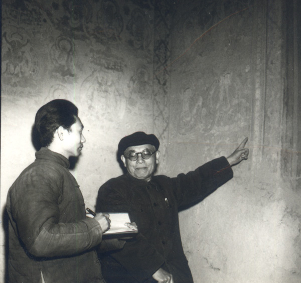 Wang Jingru 王静如 and Shi Jinbo 史金波 at the Mogao Caves in Dunhuang in 1964.